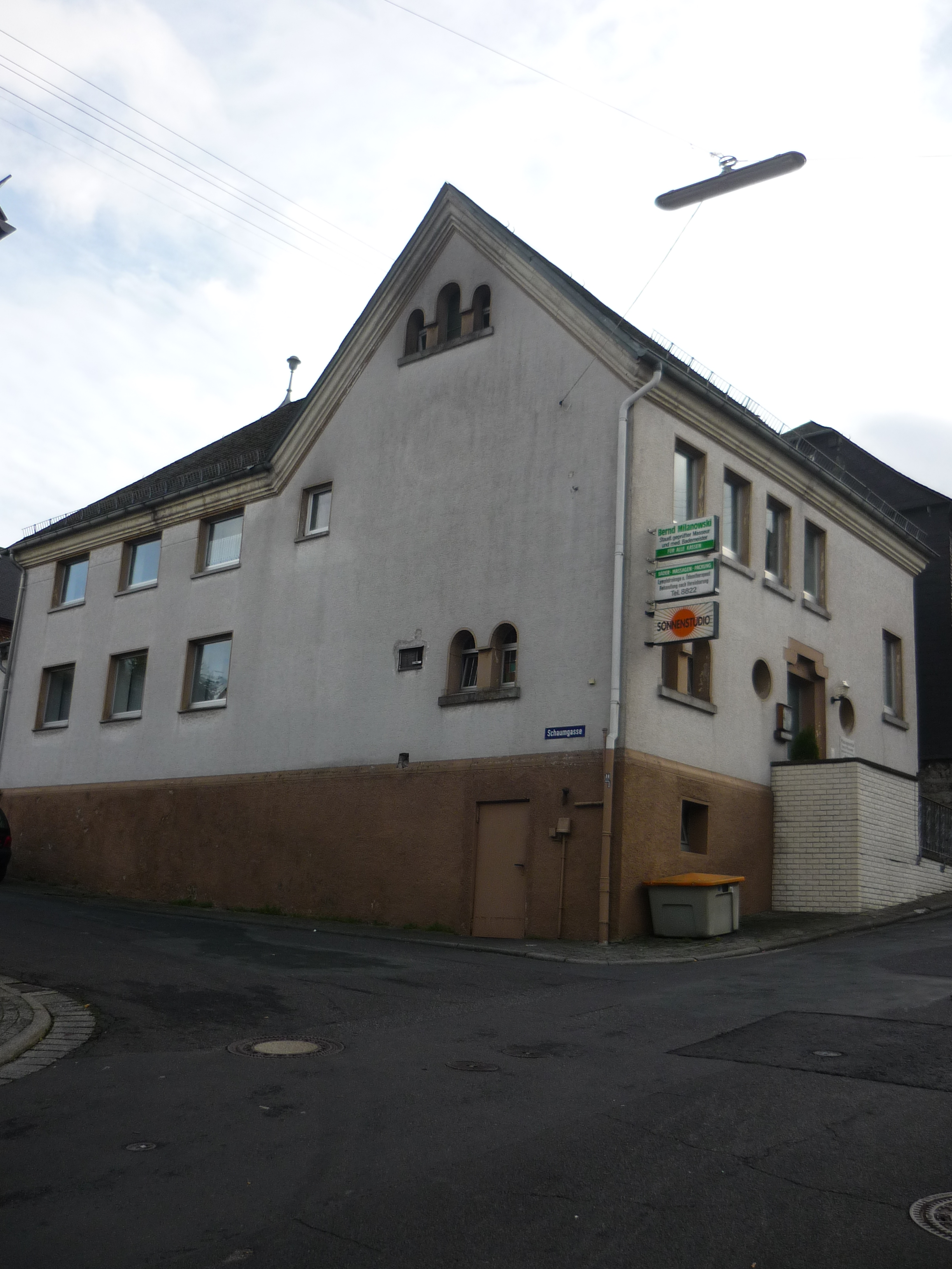 Former synagogue westerburg westerwald